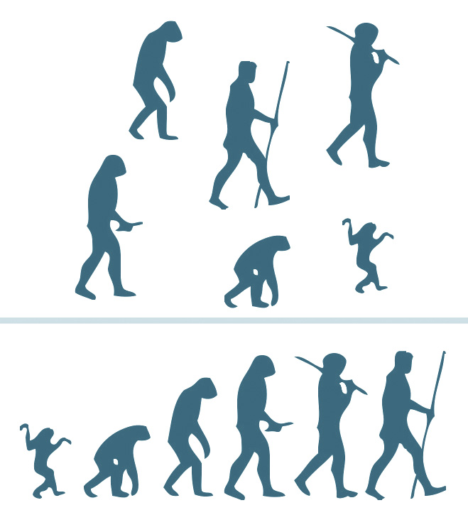 The original "Human_evolution_scheme.png" was made by José-Manuel Benitos. The following was stated by the original author: "Simplified scheme of human evolution, it does not try to be trustworthy, but a symbol of this process"